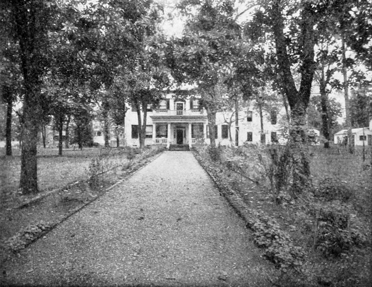 Absalom Fowler House, Little Rock, Arkansas. Identifier: historictownsofsou00powe Title: Historic towns of the Southern States Year: 1904 (1900s) Authors: Powell, Lyman P. (Lyman Pierson), b. 1866 Subjects: Cities and towns Publisher: New York : G.P. Putnam's Sons Text Appearing Before Image: ROBERT CRITTENDEN. Little Rock 549 abilities of these men acknowledged. Arkan-sas first two senators were Ashley and Sevier,and the former was the chairman of the Judici-ary Committee of the Senate, while the latter Text Appearing After Image: THE OLD FOWLER MANSION. NOW THE RESIDENCE OF JOHN M. GRACIE. was the chairman of its Committee on ForeignRelations, the only time when the chairman-ship of both those great committees has beenlodged in the hands of a single State,—and thata State whose population consisted of a fewfrontiersmen almost lost in the primeval forest.And when the Mexican War was over and the 550 Little Rock time came to reap the fruits of victory, it wasMr. Sevier who, together with Mr. JusticeChfford, negotiated the treaty of peace. The leaders of the infant commonwealth